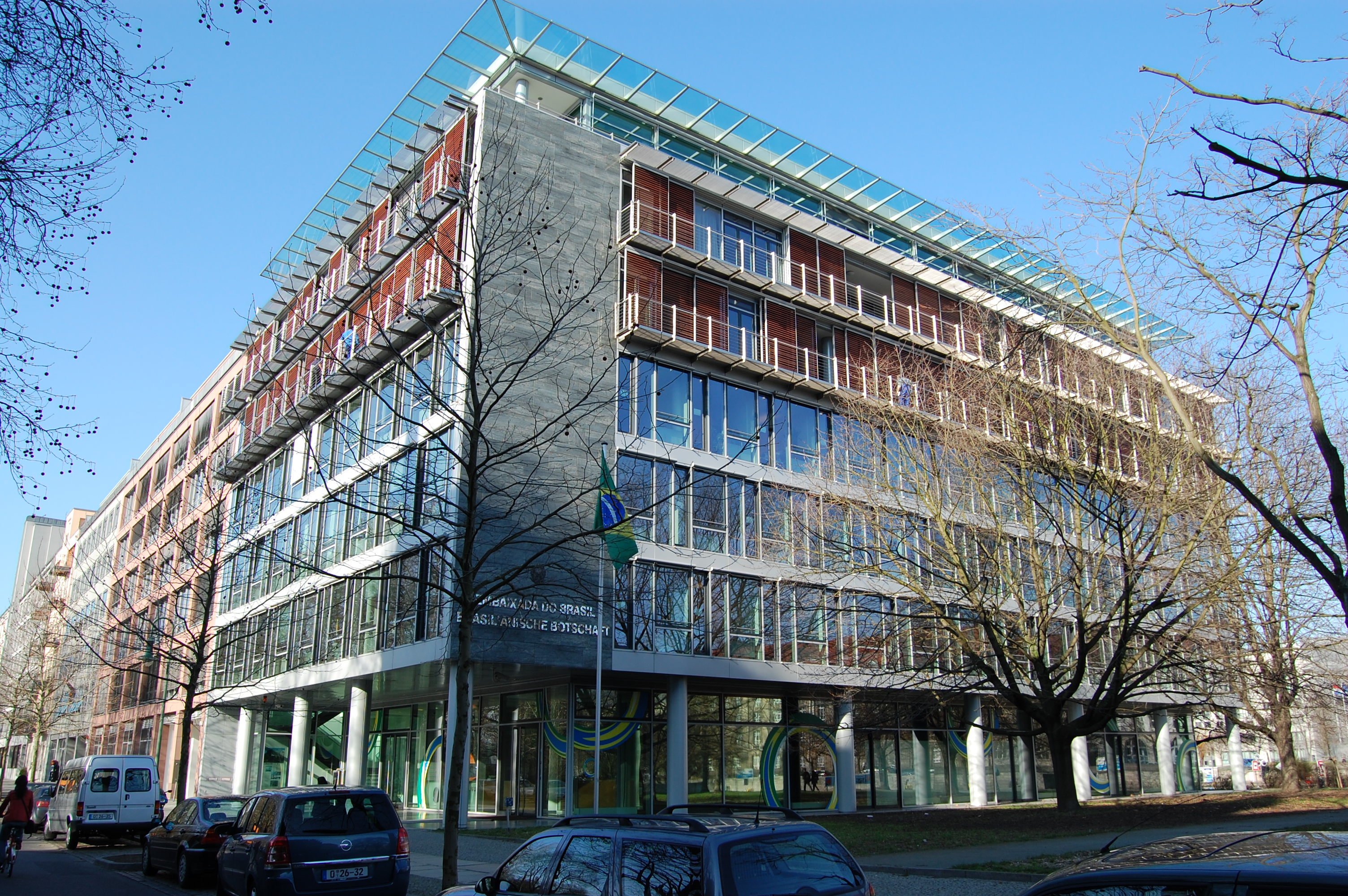 Brazilian Embassy in Berlin